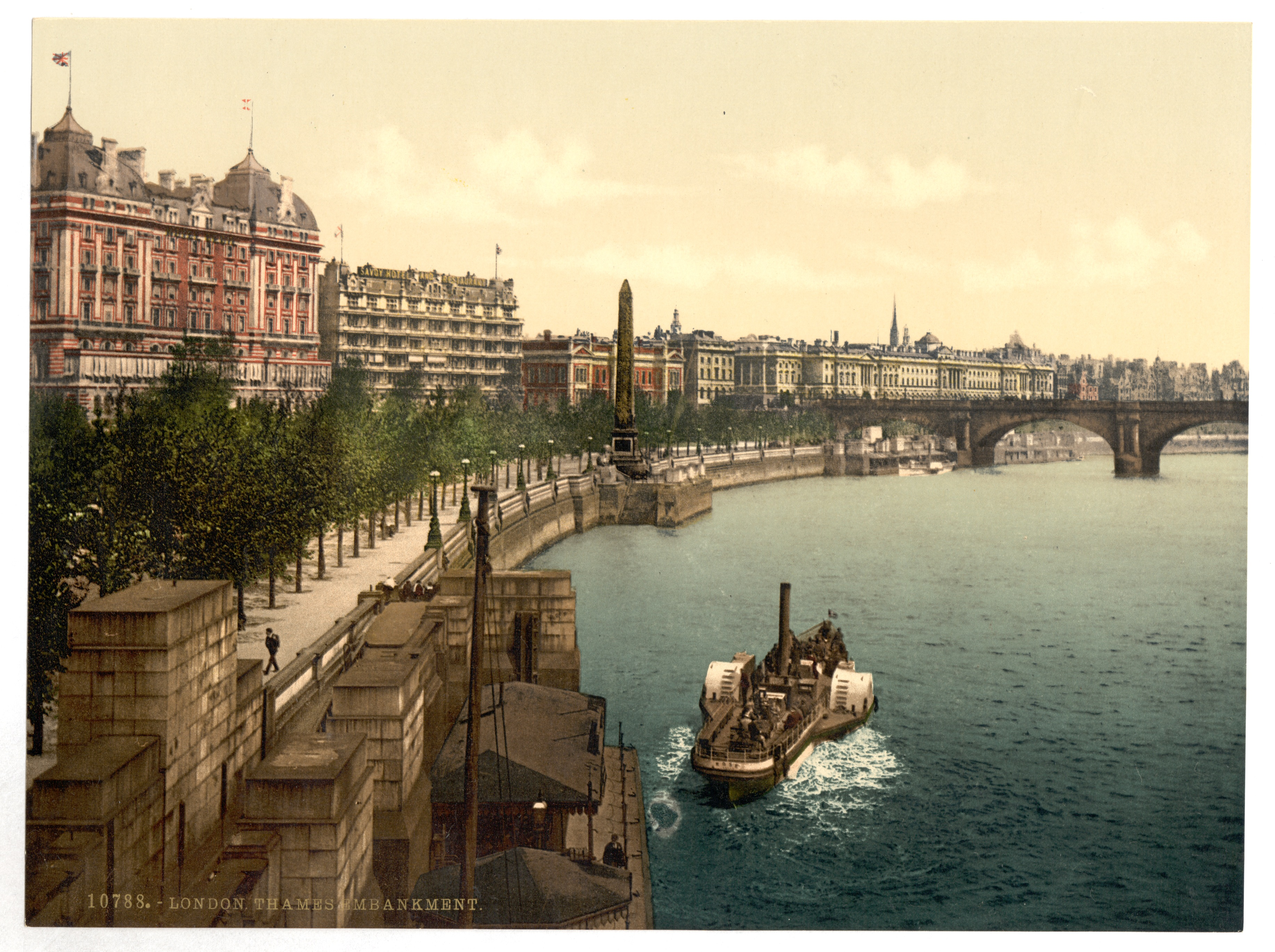 Forms part of: Views of the British Isles, in the Photochrom print collection.; More information about the Photochrom Print Collection is available at Title from the Detroit Publishing Co., Catalogue J-foreign section, Detroit, Mich. : Detroit Publishing Company, 1905.; Exhibited: "Monet's London : Artists' reflections on the Thames" at the Museum of Fine Arts, St. Petersburg, Florida, and other venues, 2005-2006.; Print no. "10788".